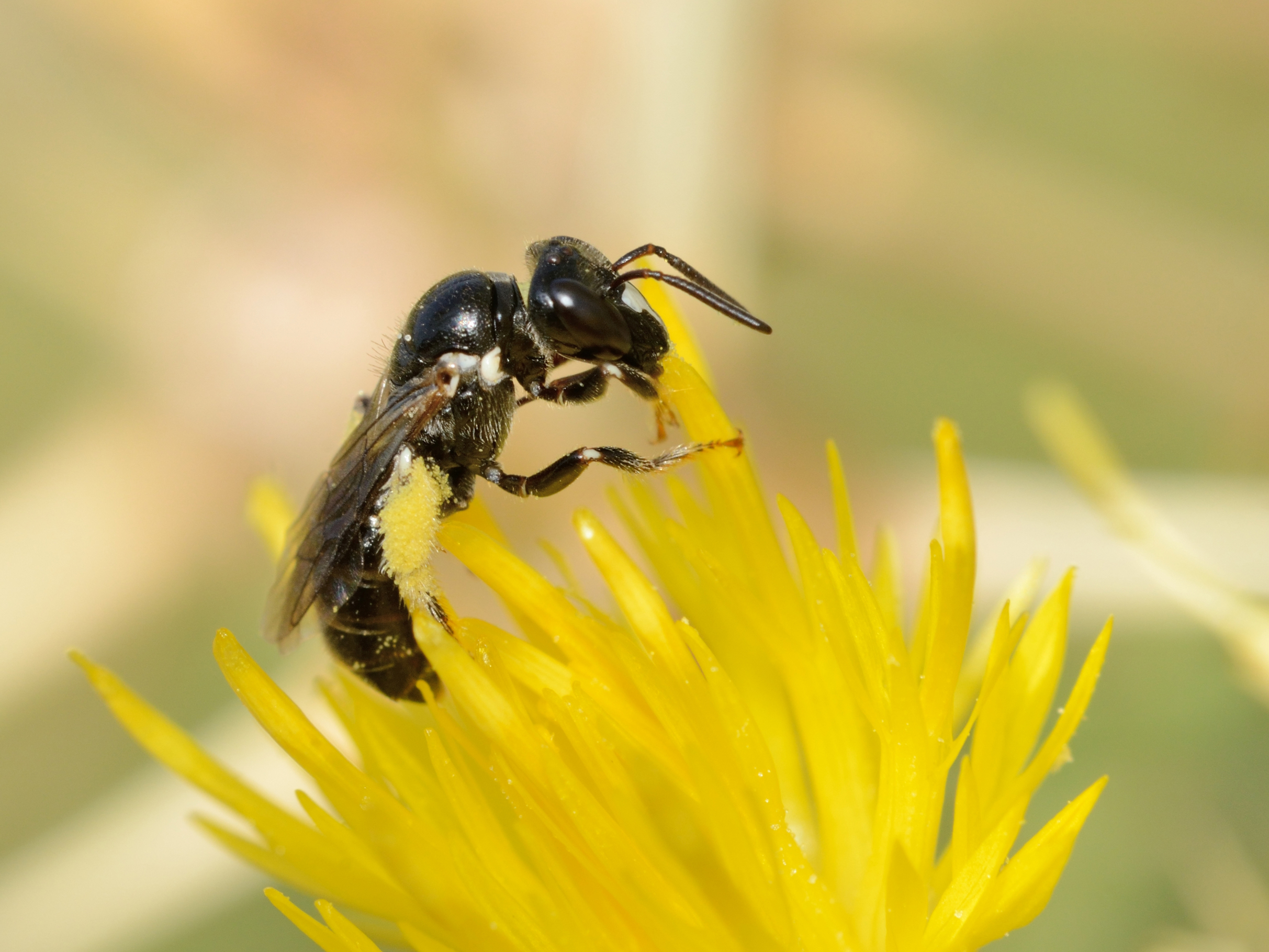 Exoneuridia libanensis (Friese, 1899), female foraging on Centaurea hyalolepis, Lehavot Habashan, Hula Valley, Israel, June 13, 2014.